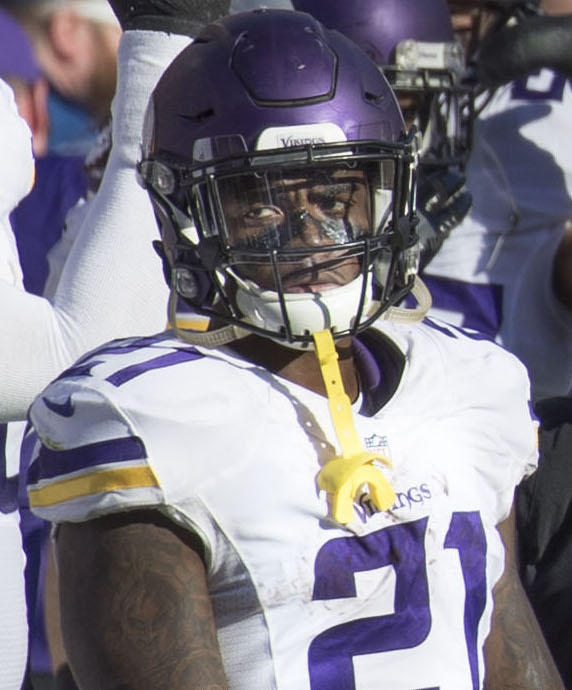 Minnesota Vikings running back, Jerick McKinnon, on the sidelines during a game against the Washington Redskins on November 13, 2016.